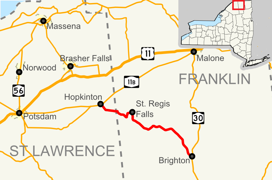 Infobox map of New York State Route 458. A more detailed map of this route can be found below